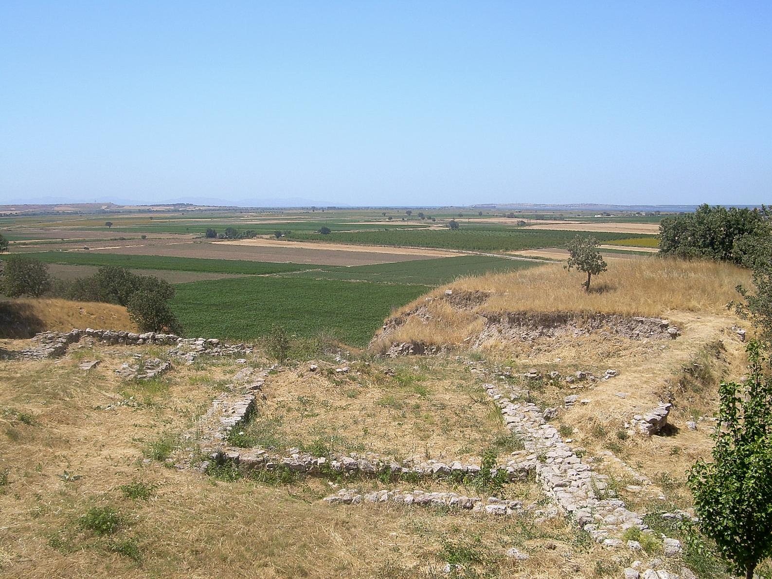 Landscape around Troy, Hisarlik